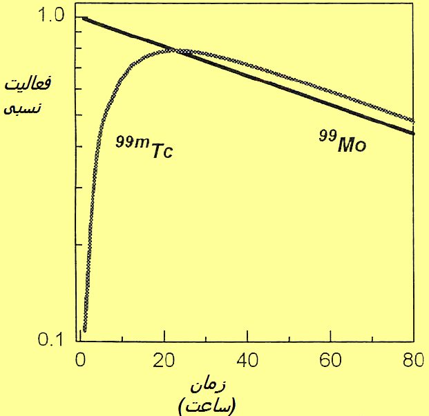 Transient equilibrium, with a Mo-mTc sample curve. Language of axes legend is in Persian.